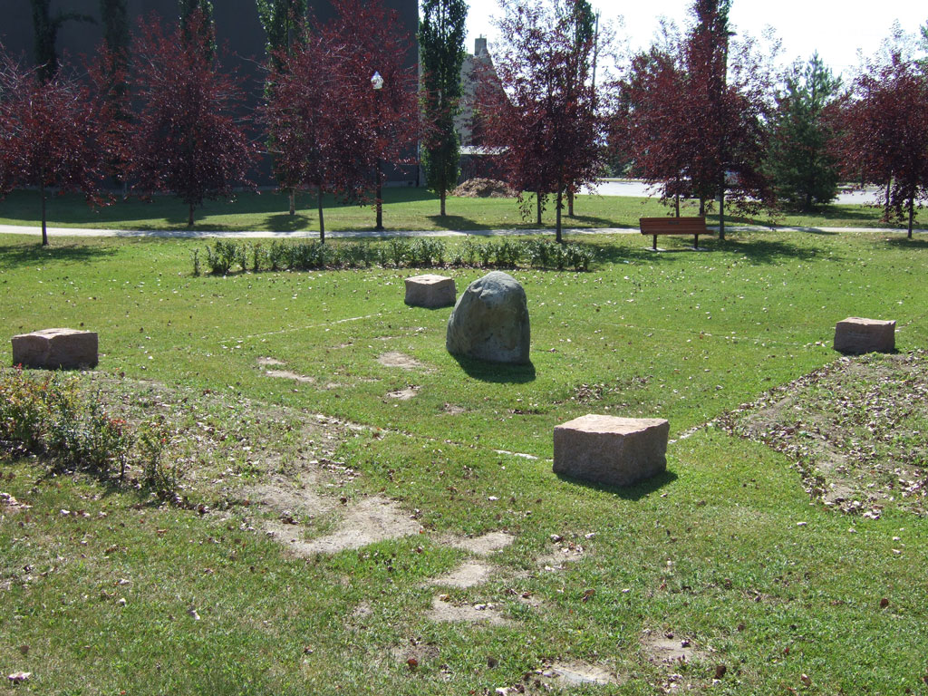 Memorial Garden (Inside Waverley Park)